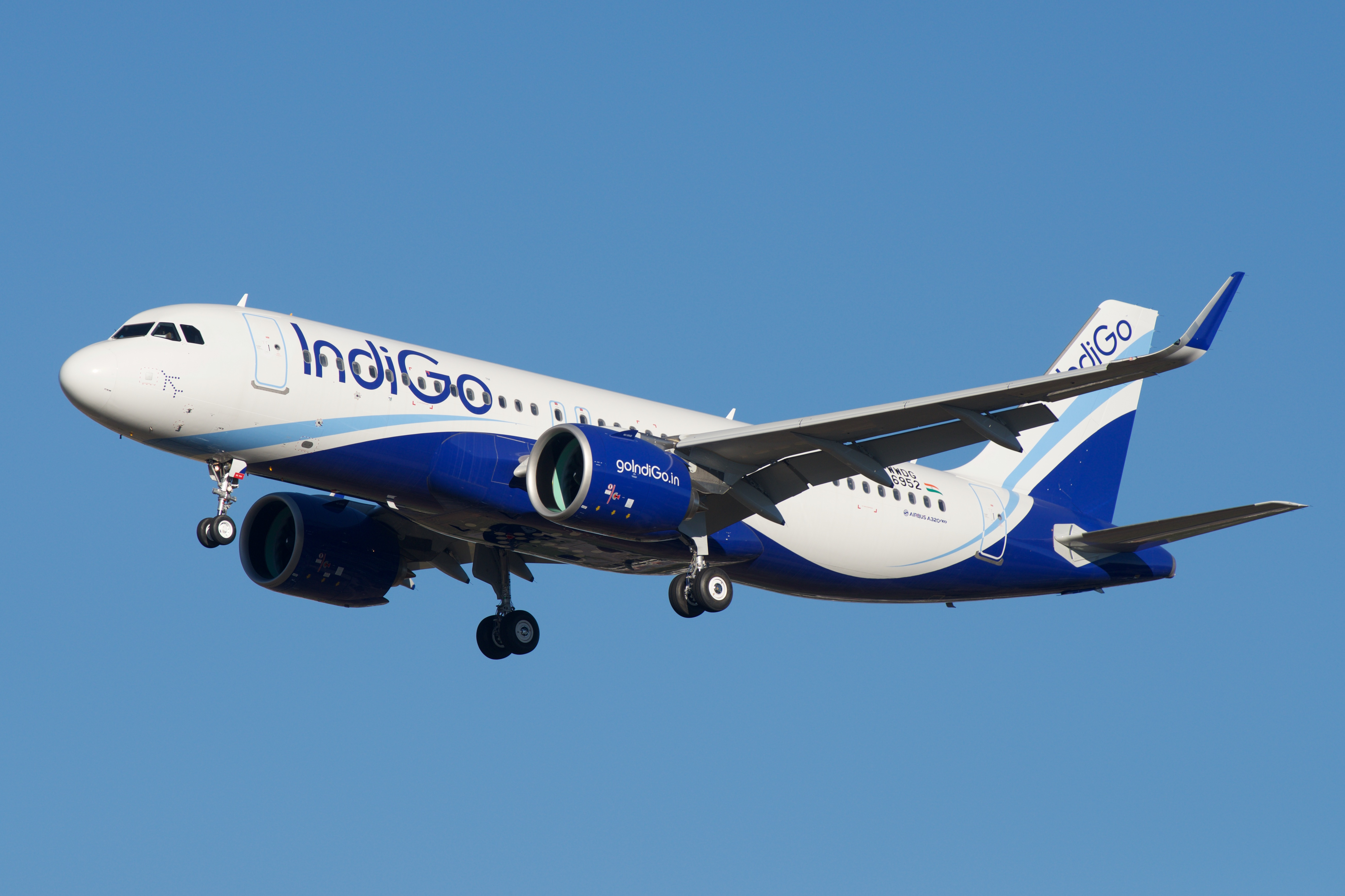 Arriving TLS after a test flight.